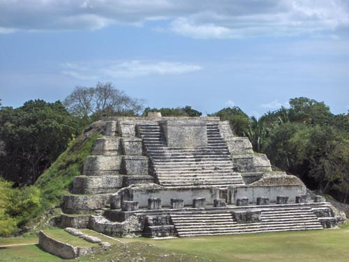 A picture I took of Altun Ha on a recent vacation to Belize. ~mableclaid Category:Altun Ha Hình:Altunha.jpg